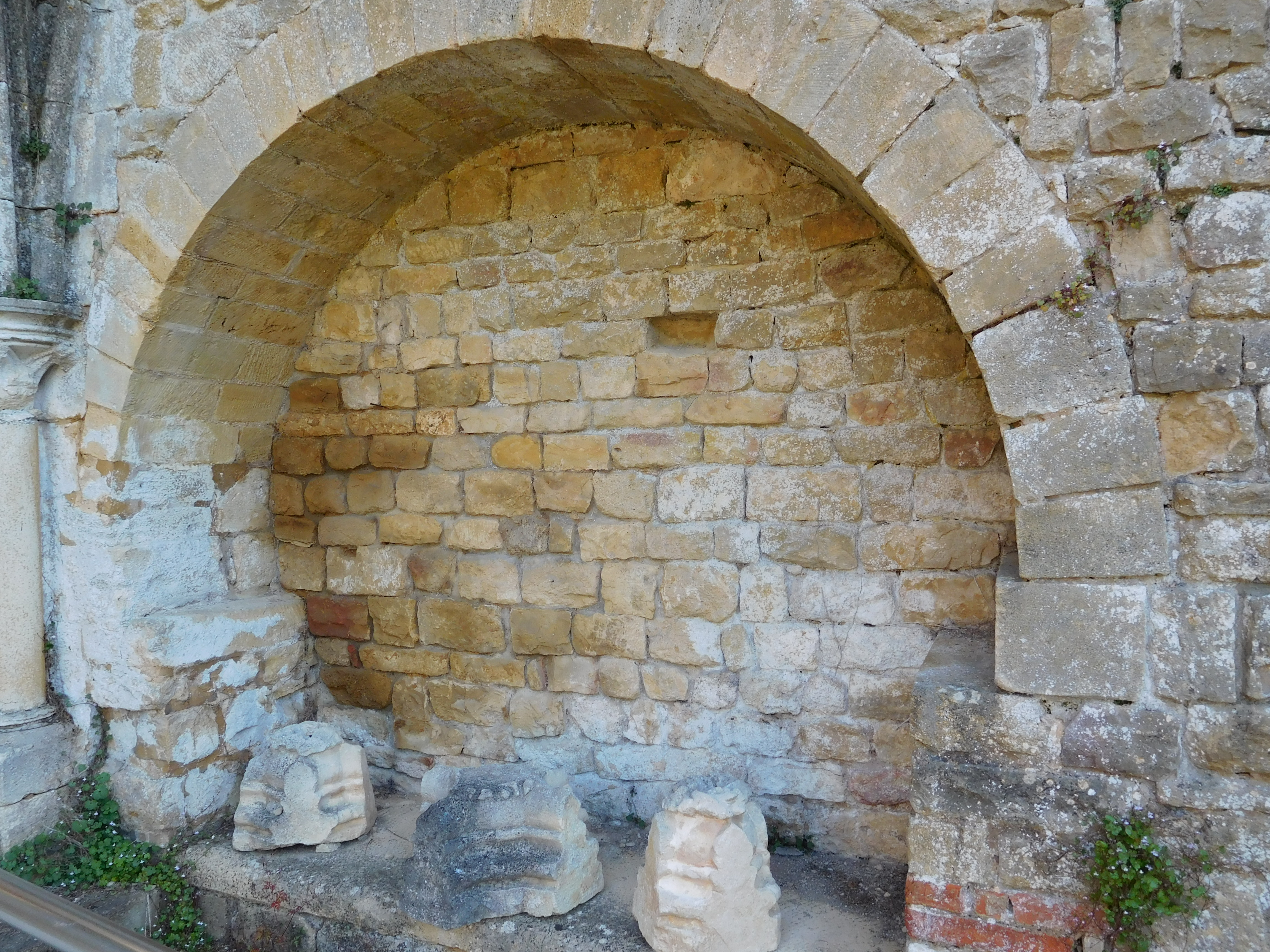 L'armarium (where books of daily use are kept) of the Orval abbey (in the Orval cloister's ruins)